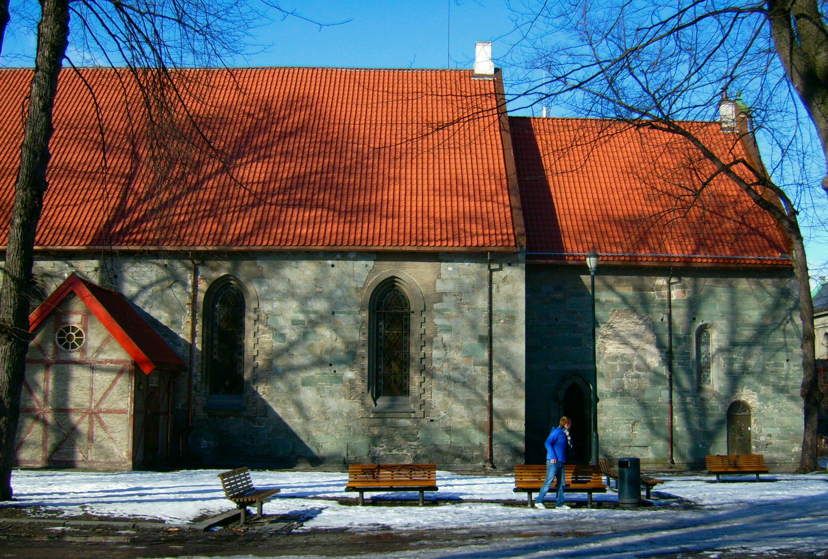 Our Lady's church, Trondheim, Norway, view from the north